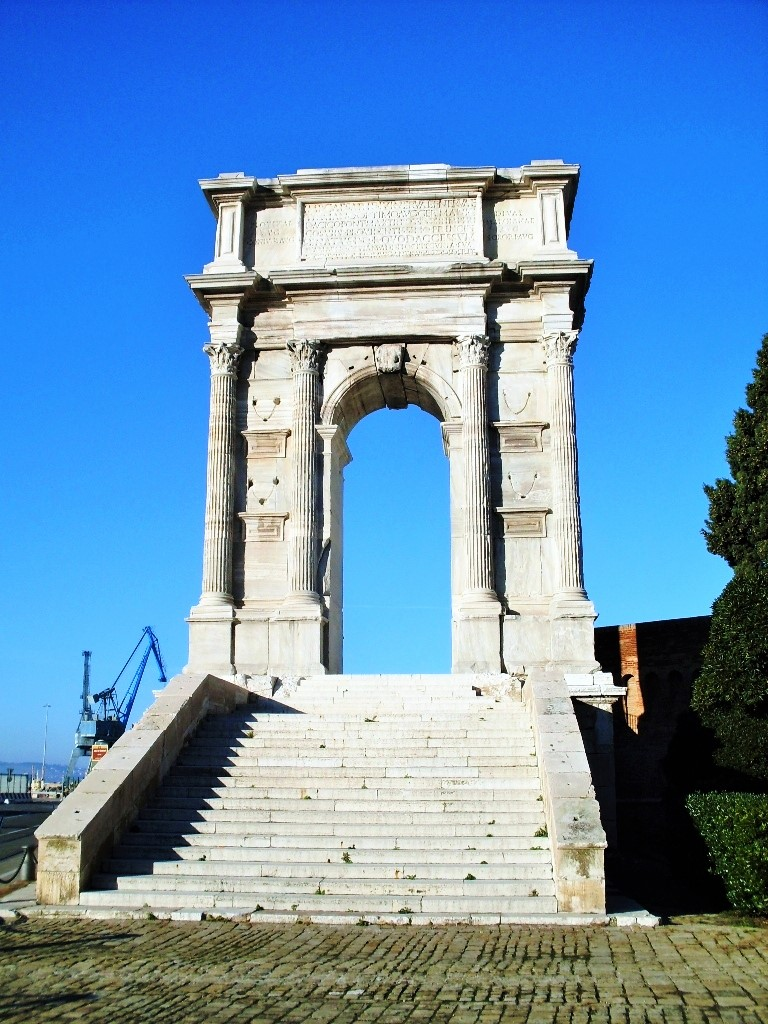 Arco di Traiano